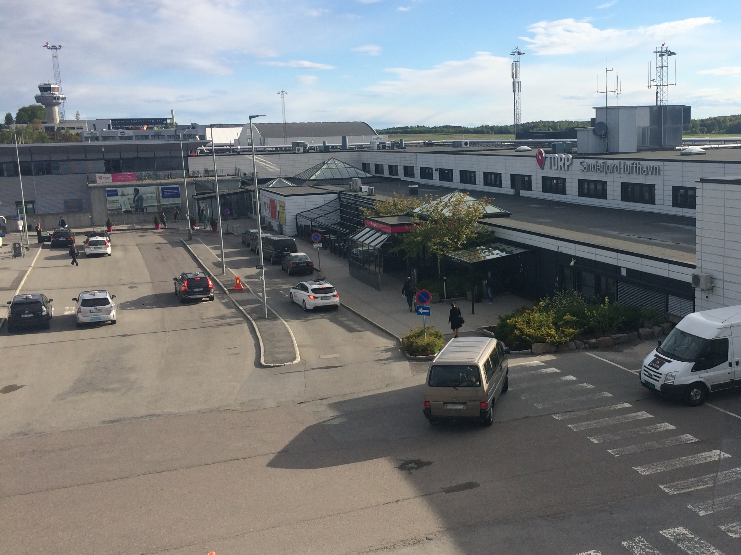 Terminal building at Sandefjord Airport, Torp, Norway May 27th, 2015